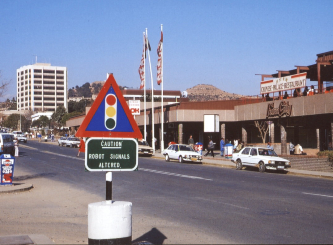 Kingsway, Maseru